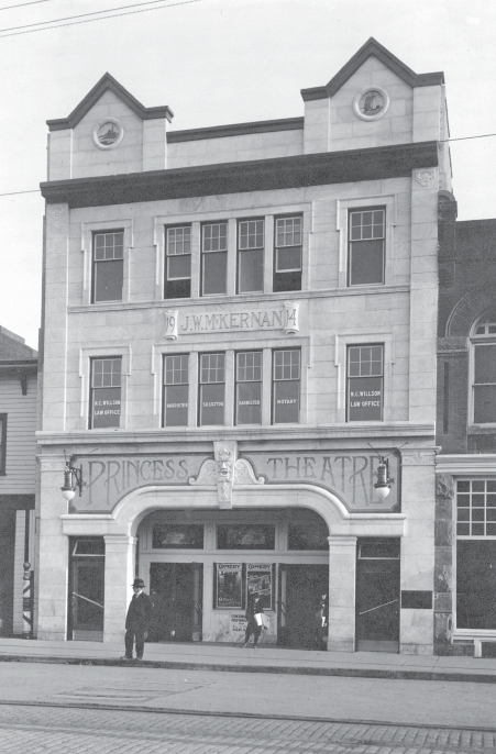 A photo of the Princess Theatre in Edmonton Alberta shortly after opening in 1915. Housed in the City of Edmonton Archives, item number EA-519-1.